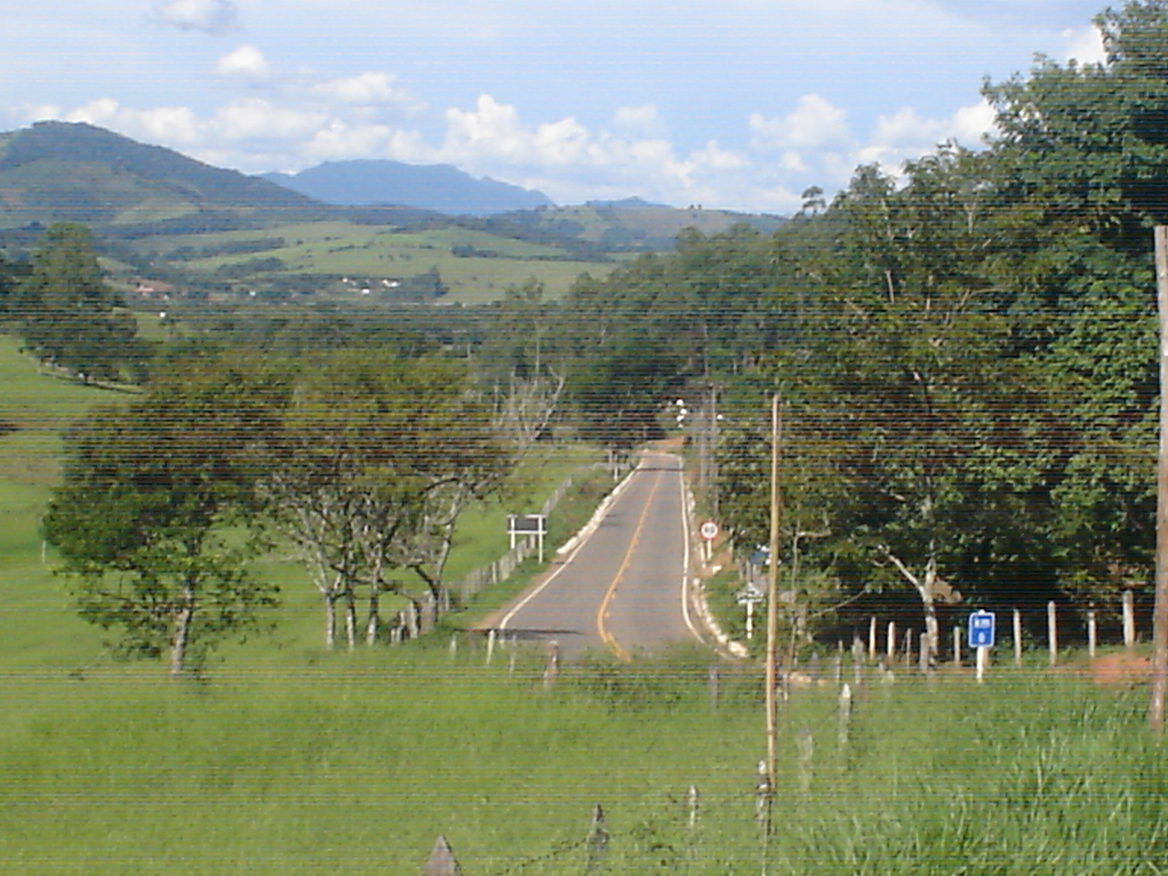 Road AMG1925 in Piranguinho, Minas Gerais, Brazil